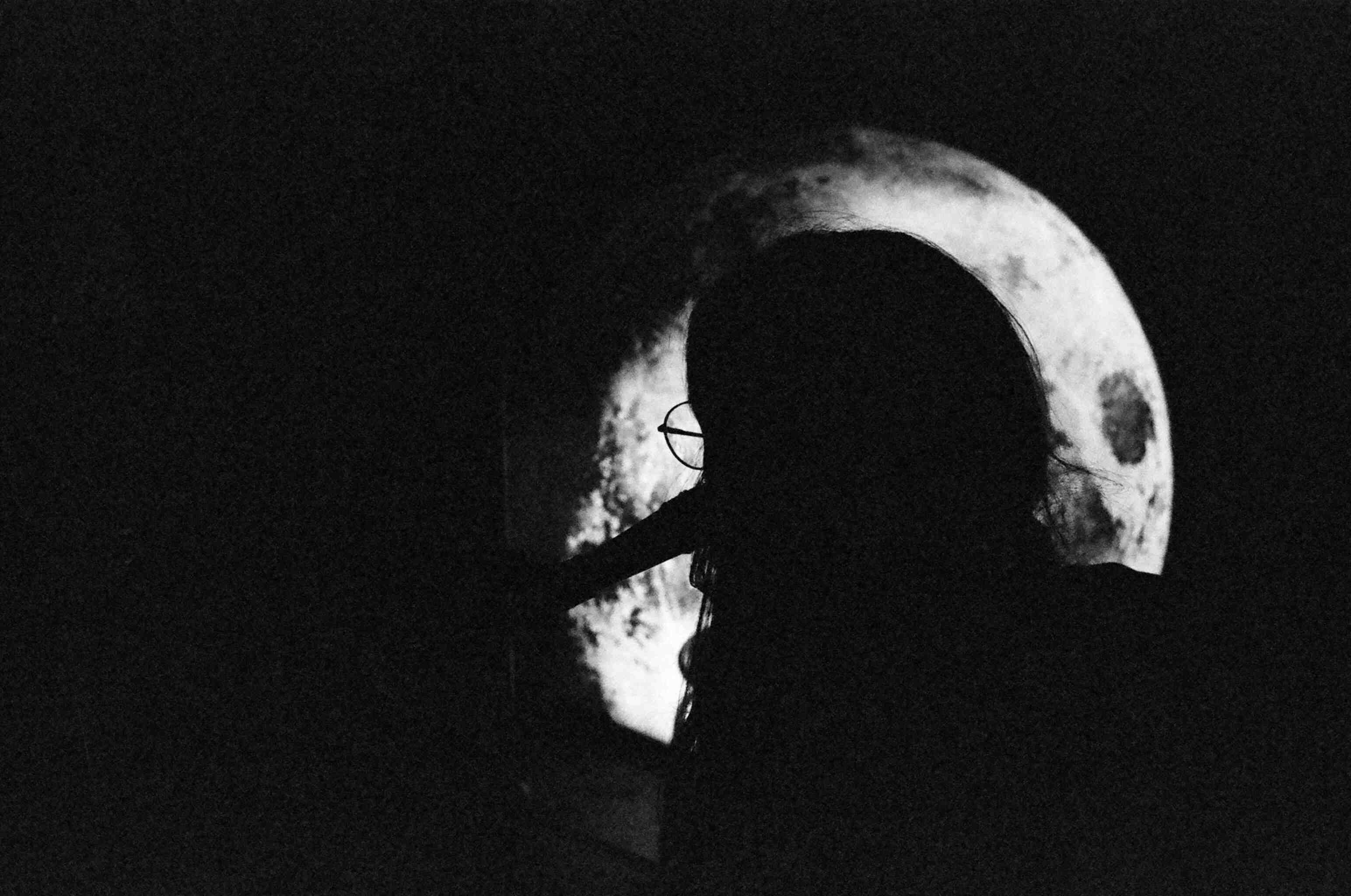 A photograph of experimental composer Daniel Fishkin silhouetted against the moon, taken by Samuel Lang Budin.